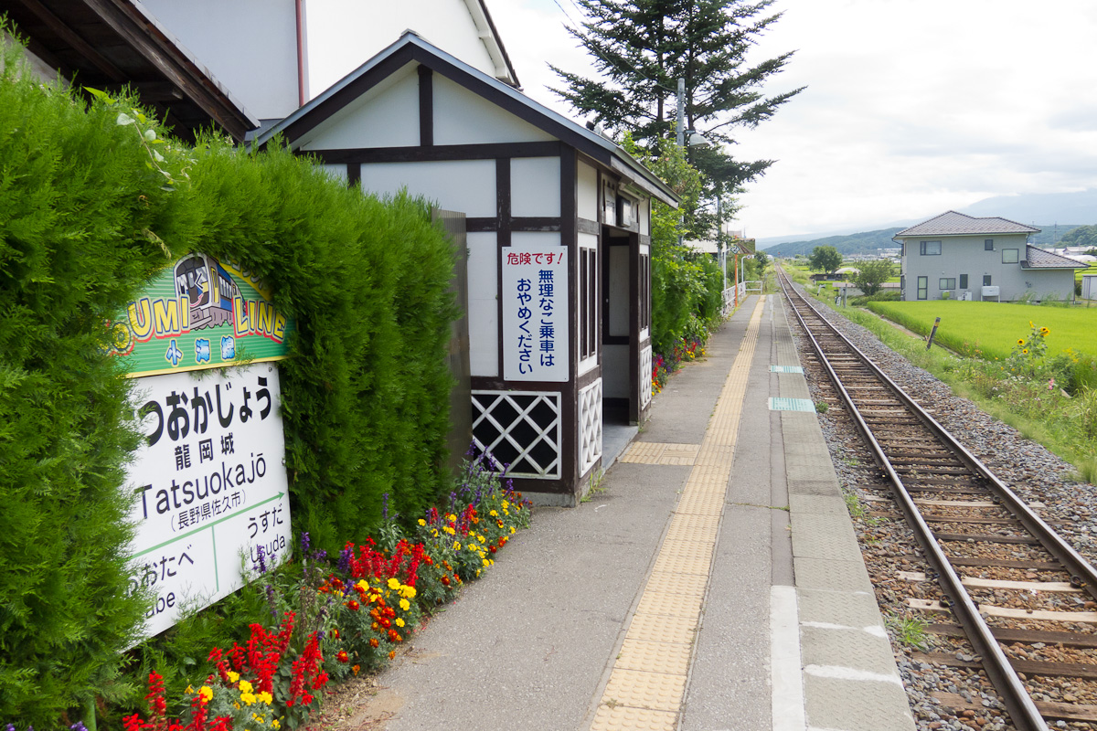 Tatsuokajo Station on JR East Koumi Line